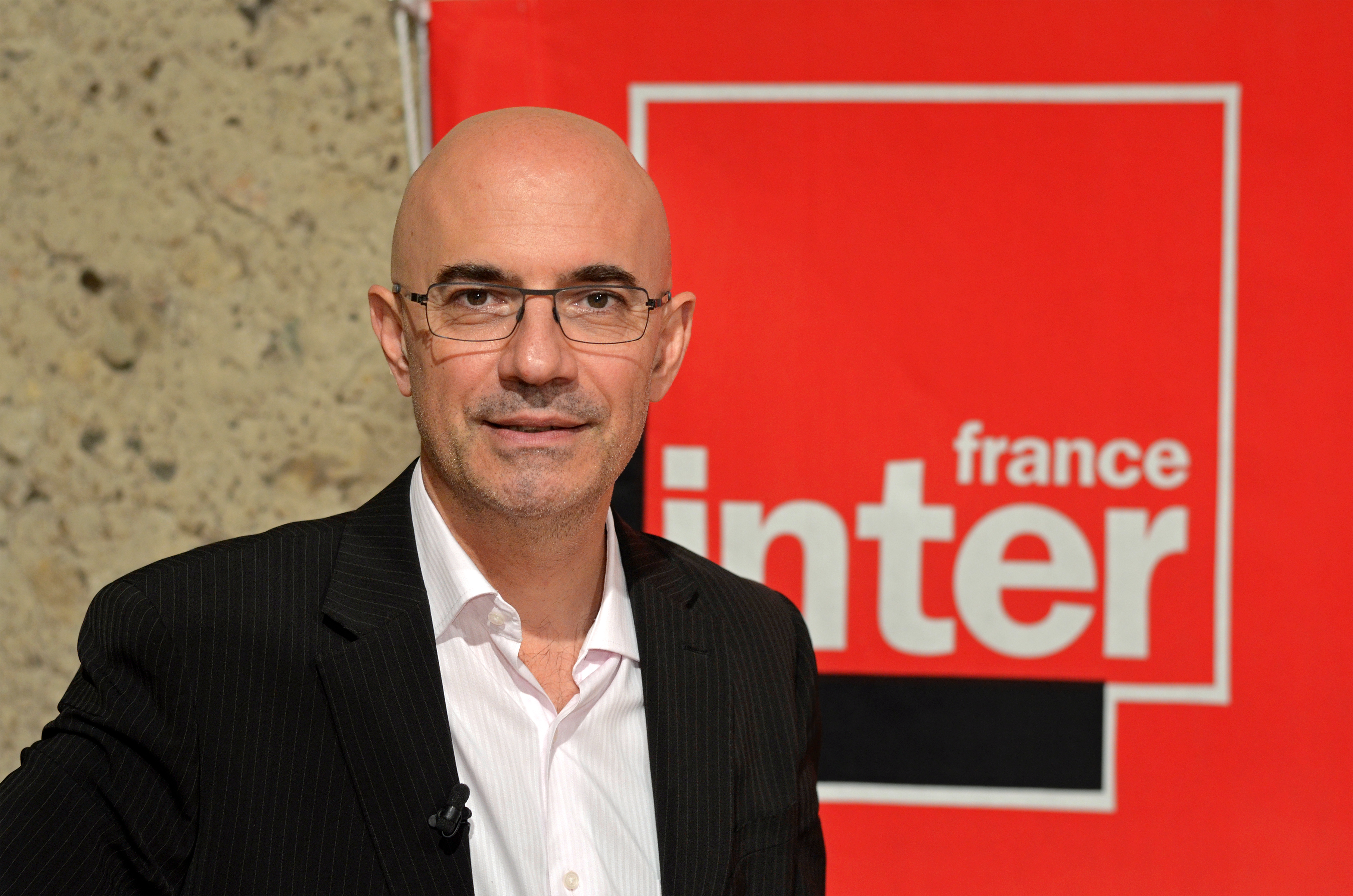 Nicolas Stoufflet, French radiophonic animator (Le Jeu des 1000 euros) on France Inter, after a recording in Couture-sur-Loir (France).